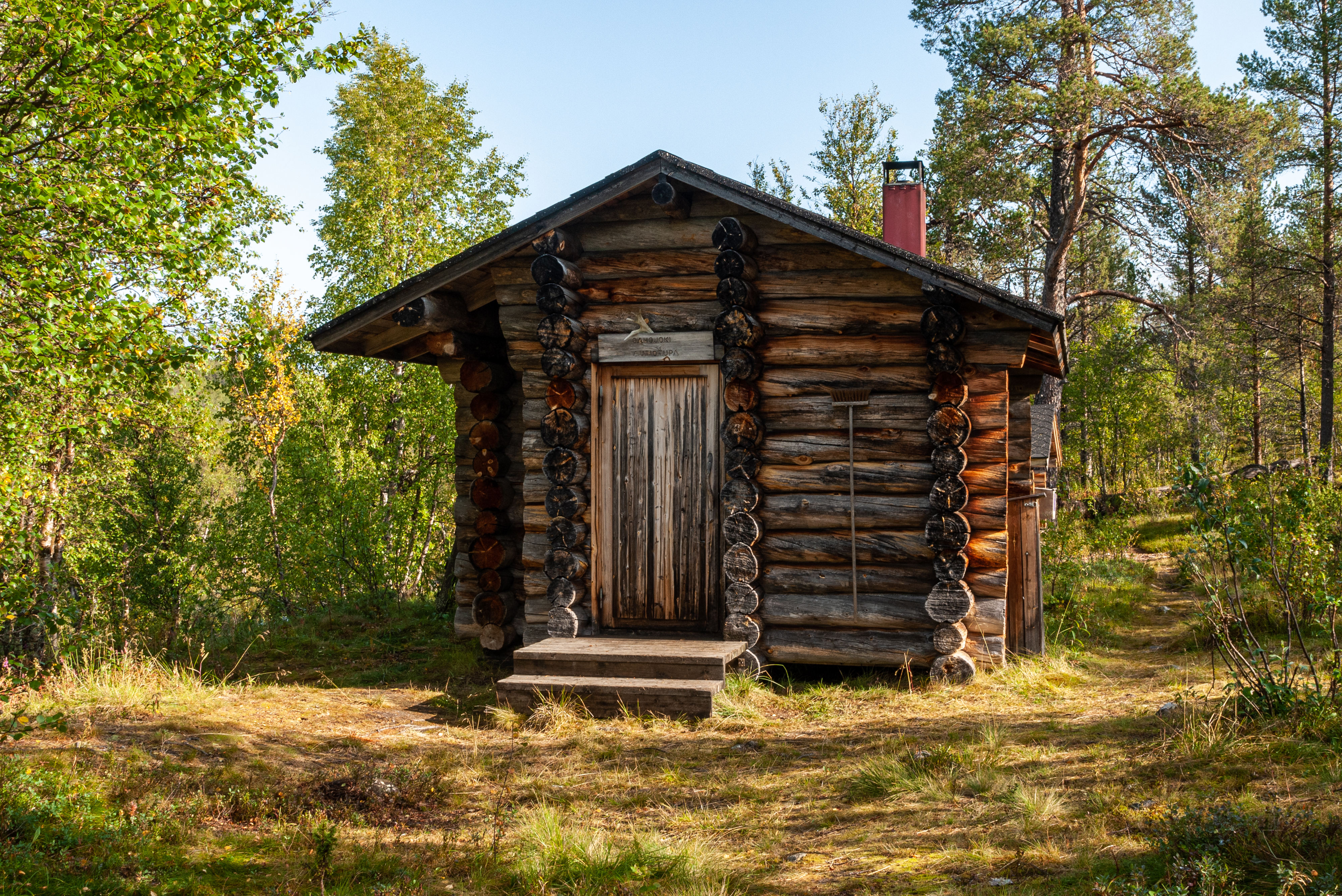 Oahujoki wilderness hut in Lemmenjoki National Park, Inari, Finland.